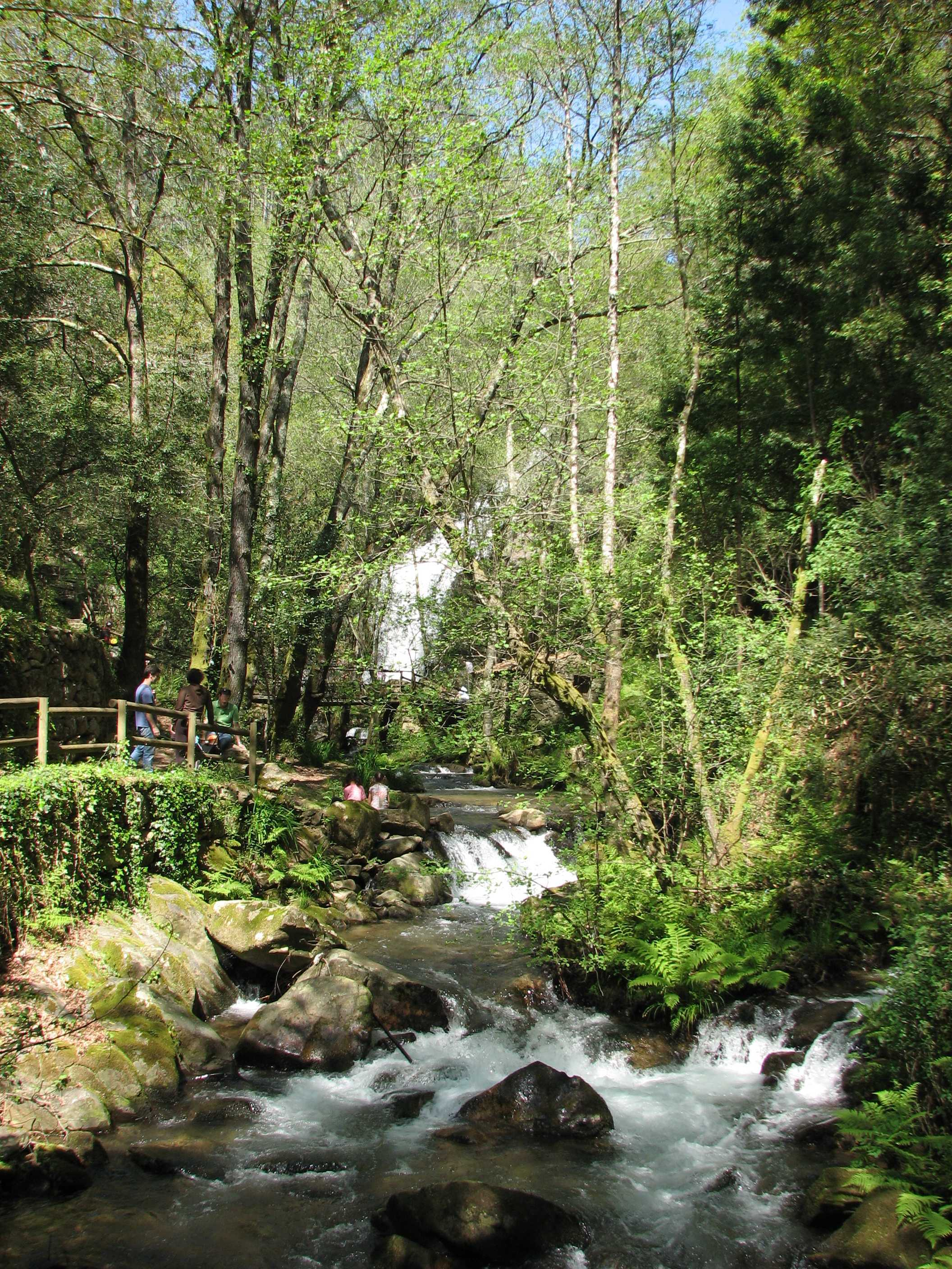 View form Cabreia's park